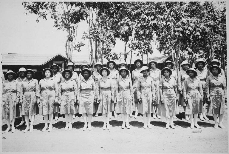 25th Station Hospital Unit, also known as the Negro Army Nurse Corps, in Liberia in 1943.